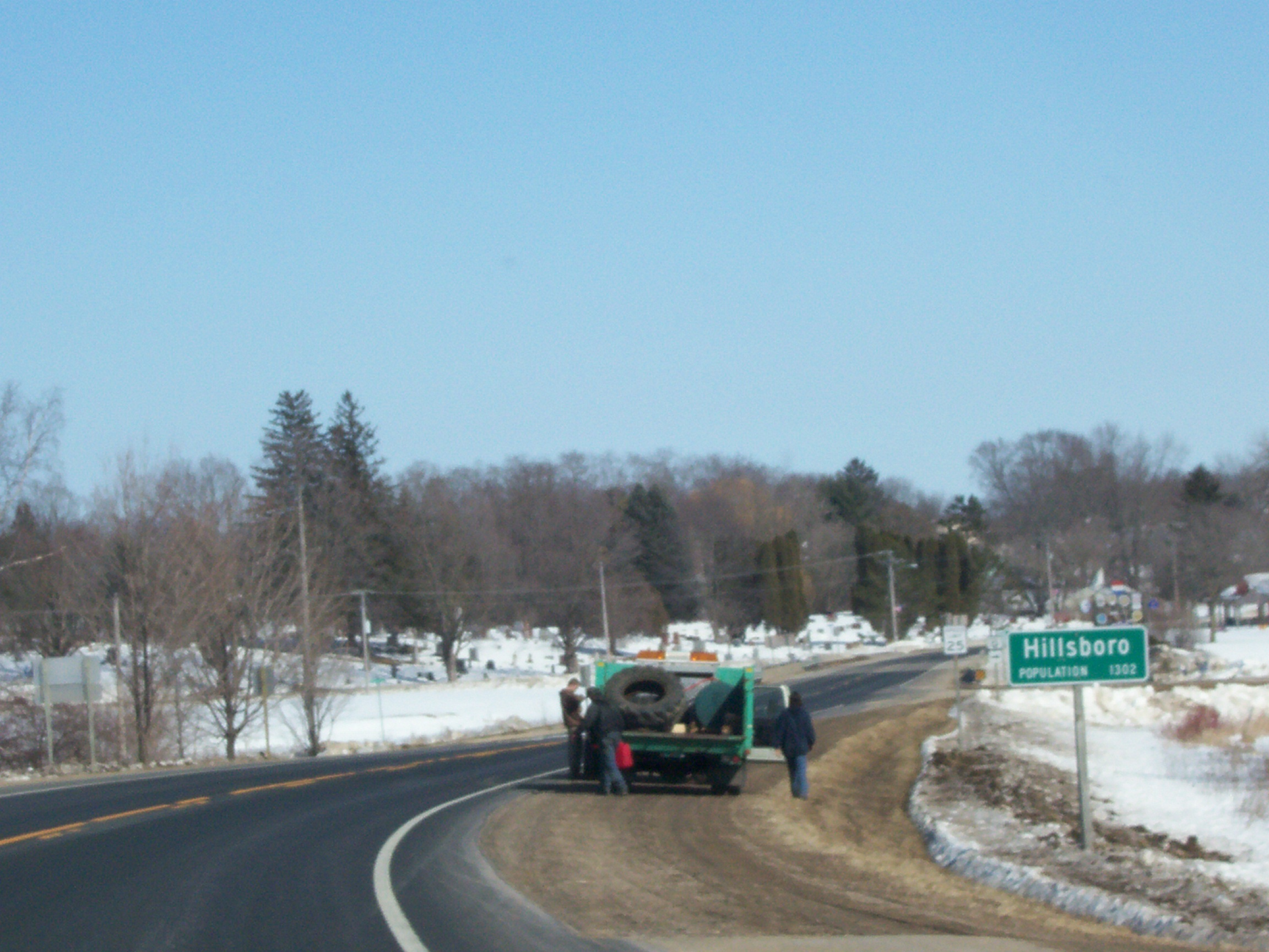 Looking north at the sign for Hillsboro, Wisconsin, USA while travelling on Wisconsin Highway 80. Taken March 11, 2007 by myself.